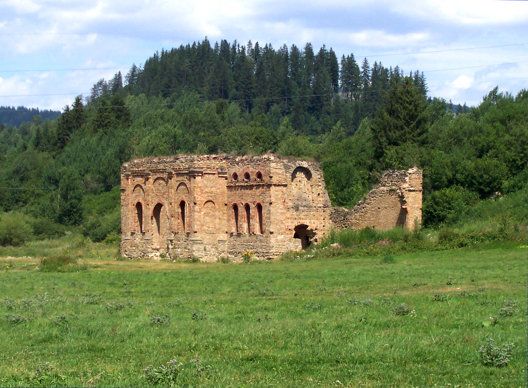 Old ironworks by Podbiel village. Orava, Slovakia